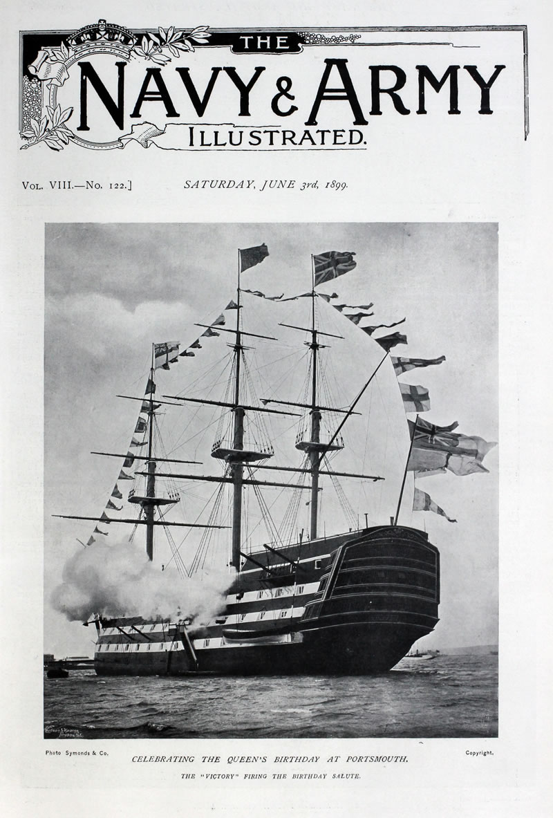 HMS Victory - 'The Navy and Army Illustrated' Vol. VIII, No. 122, 3 June 1899